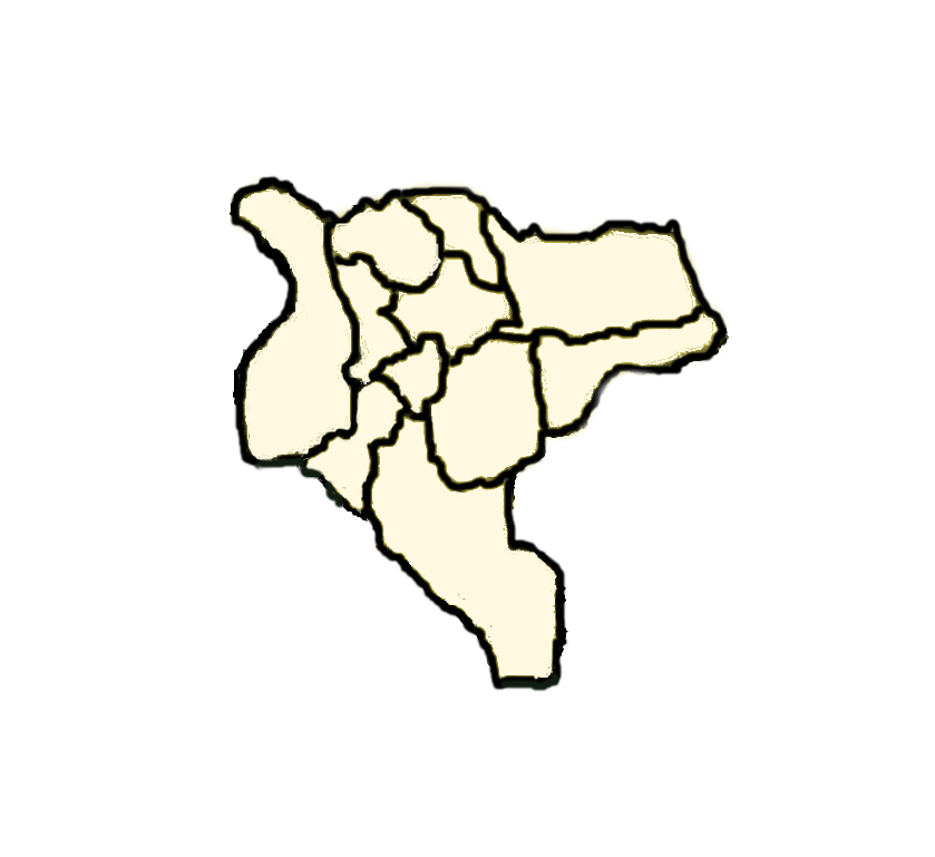 Districts of Addis Ababa city (old subdivision, with enhanced format)